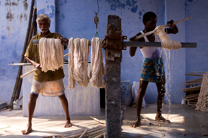 Workers dyeing cotton in Ayyampettai, India.